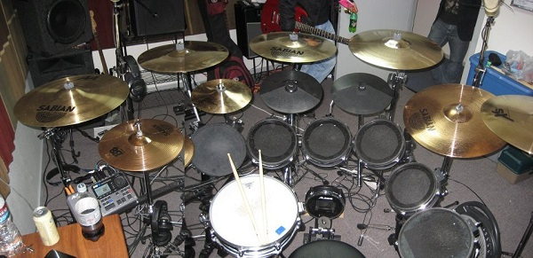 This is a current picture of Sir Oaf's drum kit.